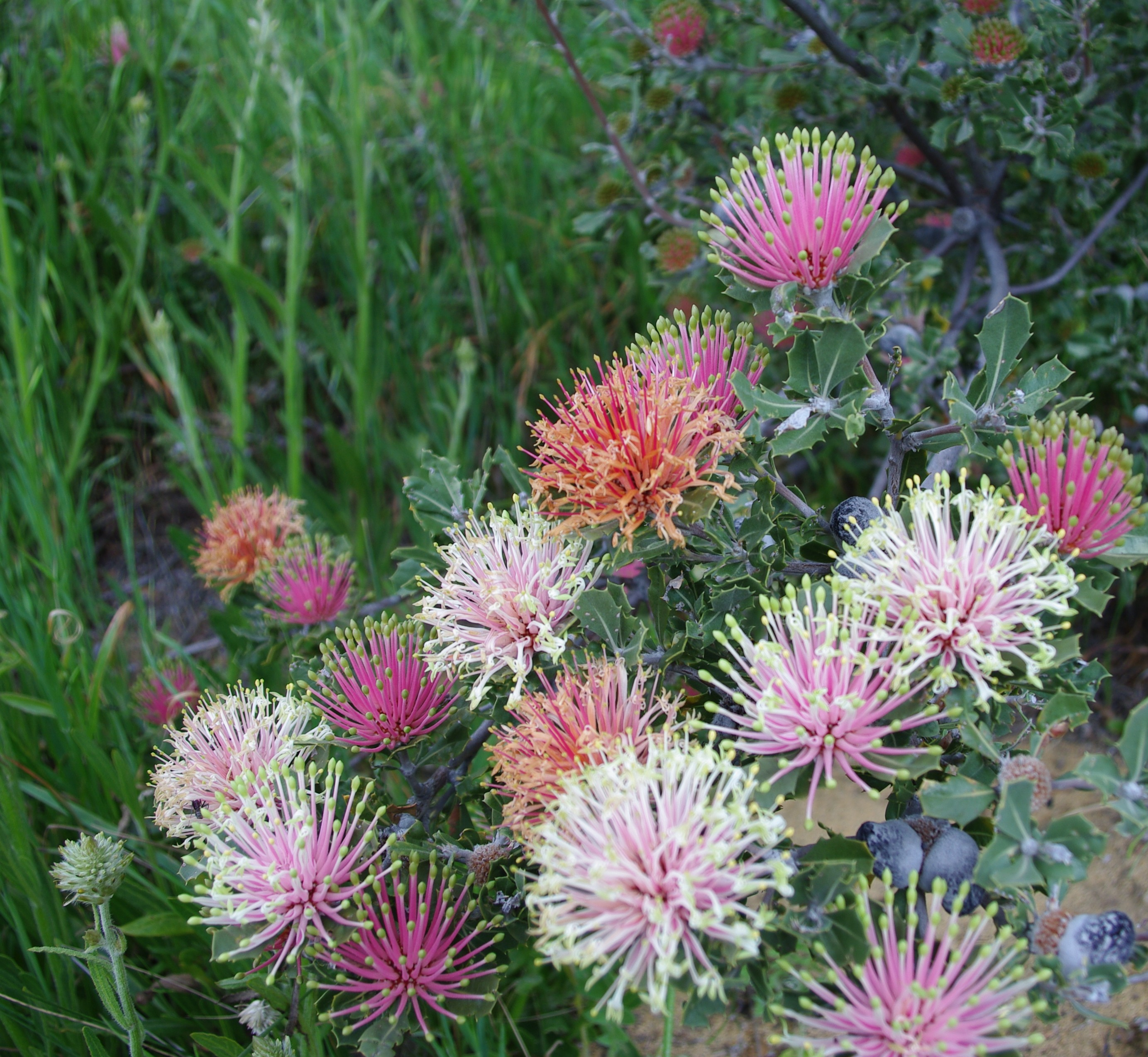 Banksia cunaeta -- Quariading Banksia or Matchstick Banksia presentation of flowers on the one plant shoing the colour range as the flowers mature